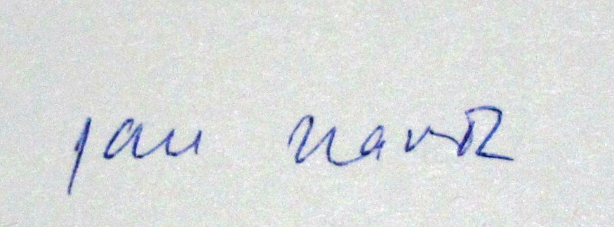 Signature of Jan Hartl, Czech actor (1983)